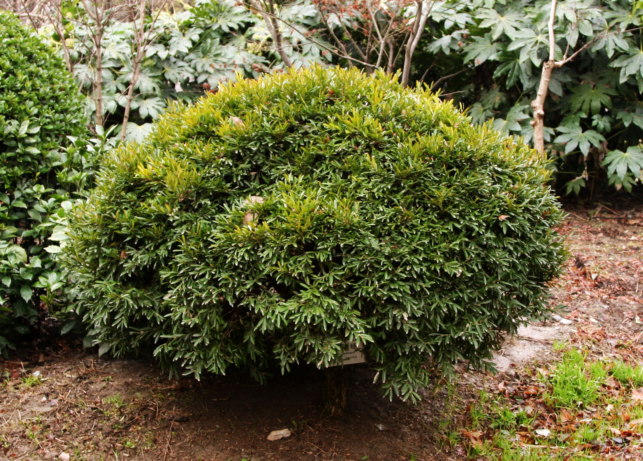 Buxus bodinieri